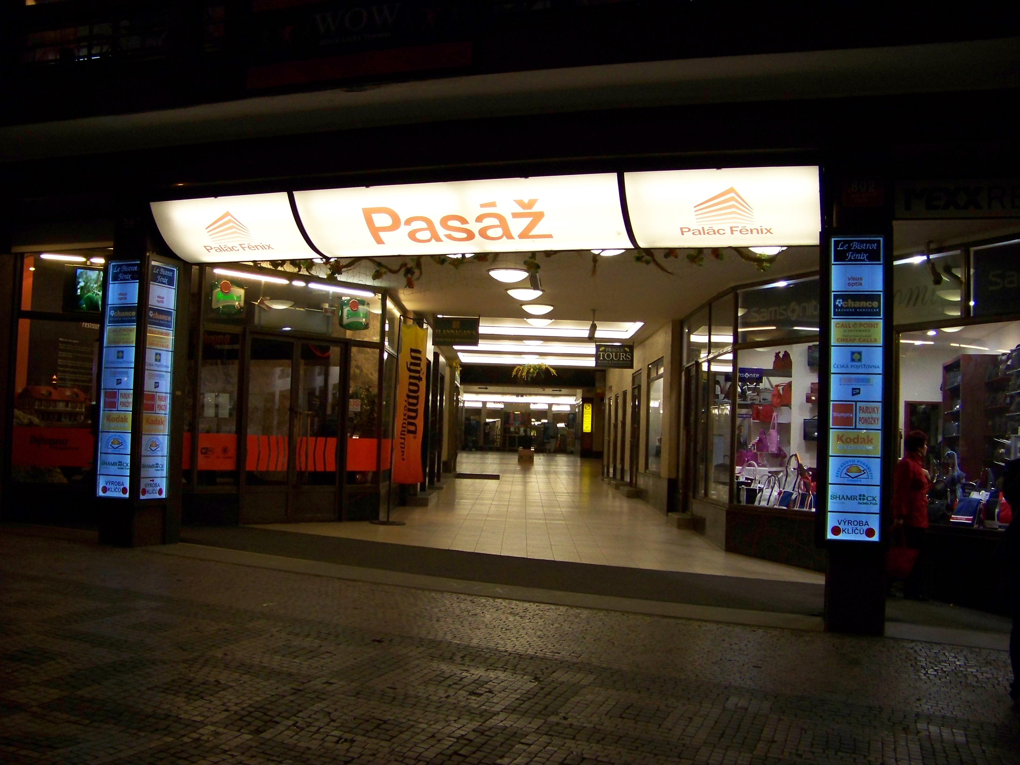 Prague-New Town, the Czech Republic. Wenceslas Square, Passage of Fénix Palace. - OpenStreetMap(Info)